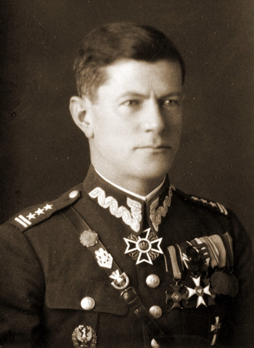 Mikołaj Bołtuć (1893-1939) - General of the Polish Army. Here in Colonel uniform.